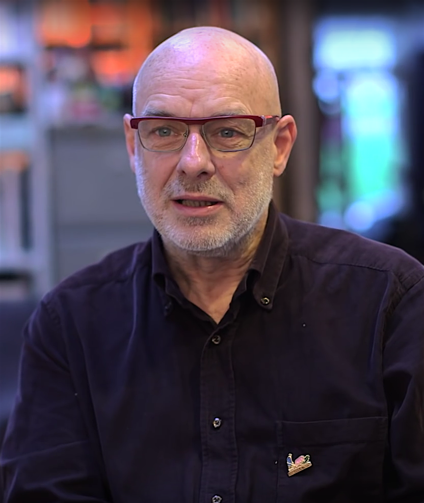 Brian Eno in a 2015 interview